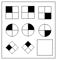 Raven's Progressive Matrices Example